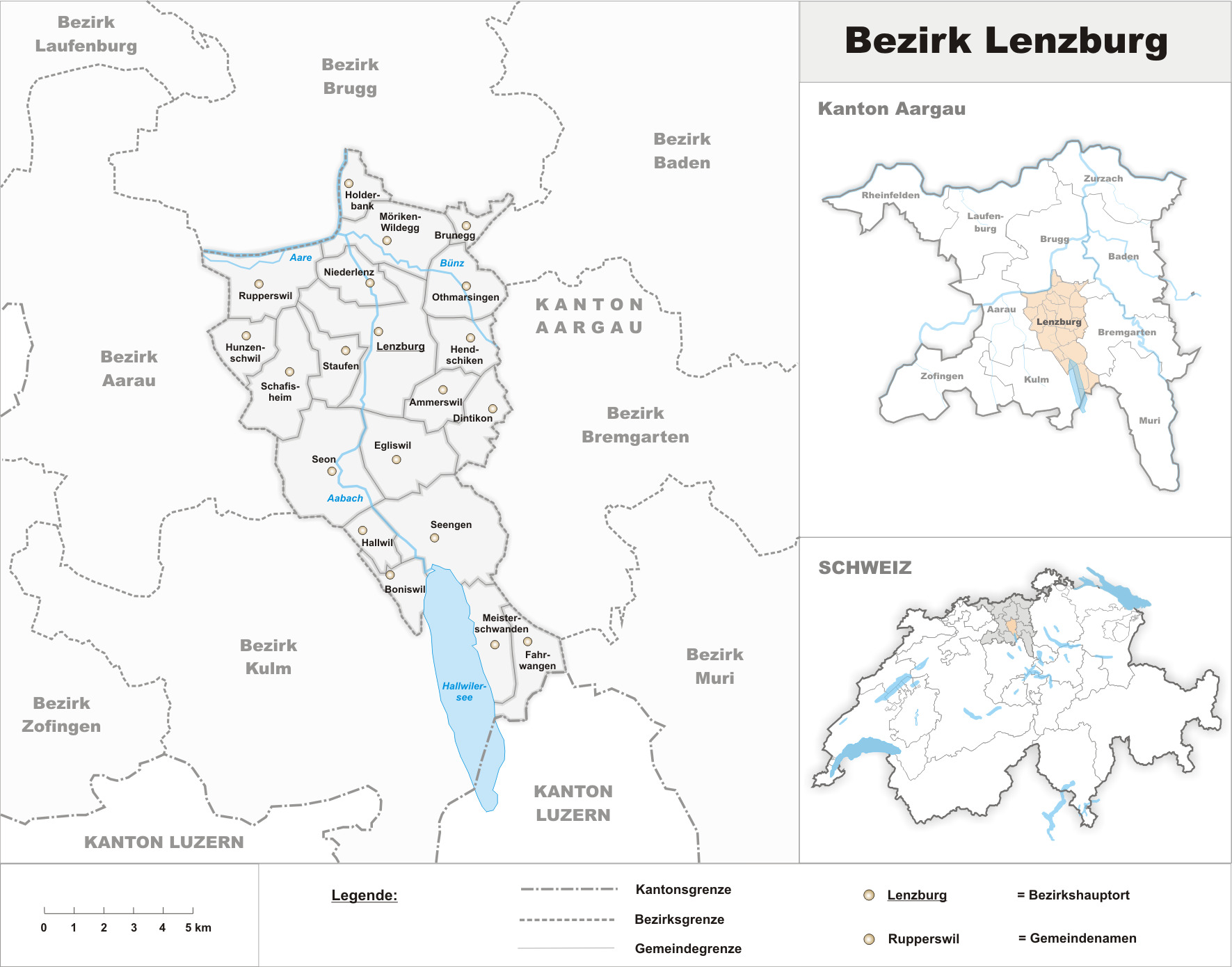 Municipalities in the district of Lenzburg to 2010